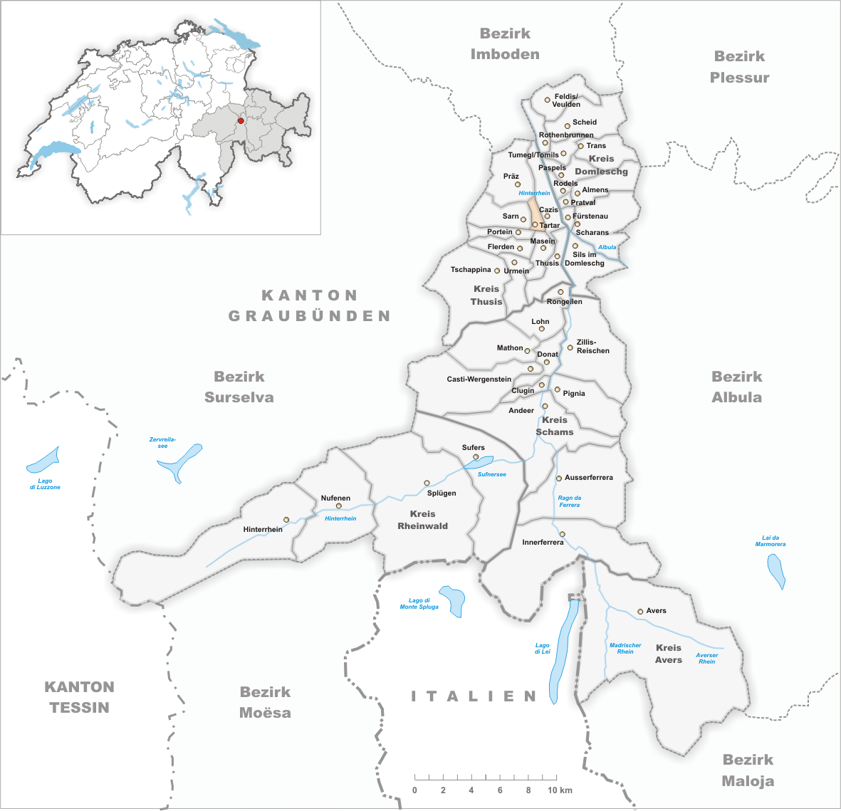 Municipality Tartar